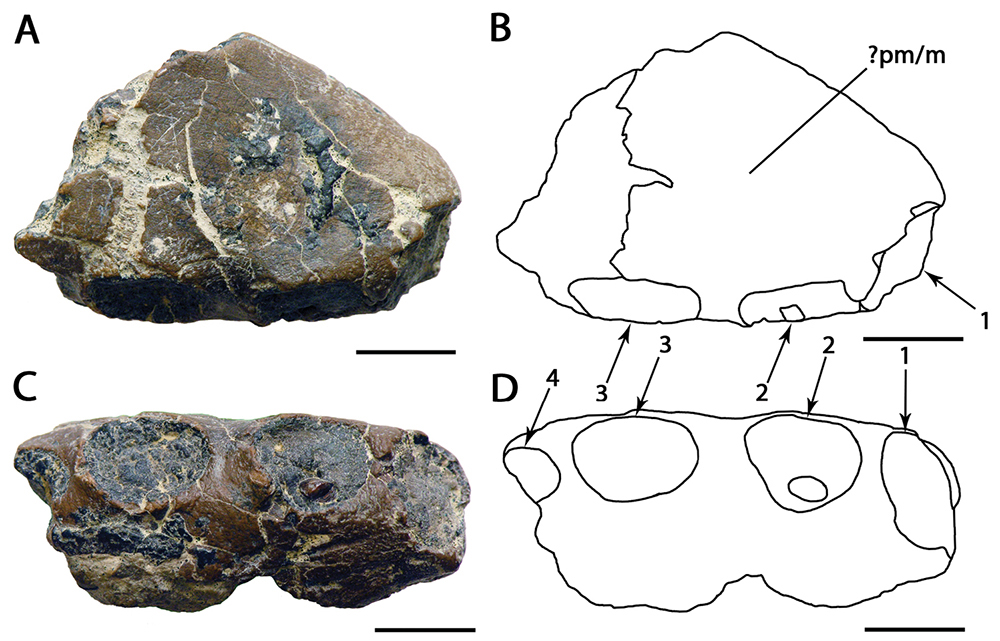 A–D Ornithocheirus crassidens, holotype CAMSM B 54499 (Albian, Cambridge Greensand), anterior fragment of the rostrum. A right lateral view B respective line drawing C ventral view D respective line drawing.